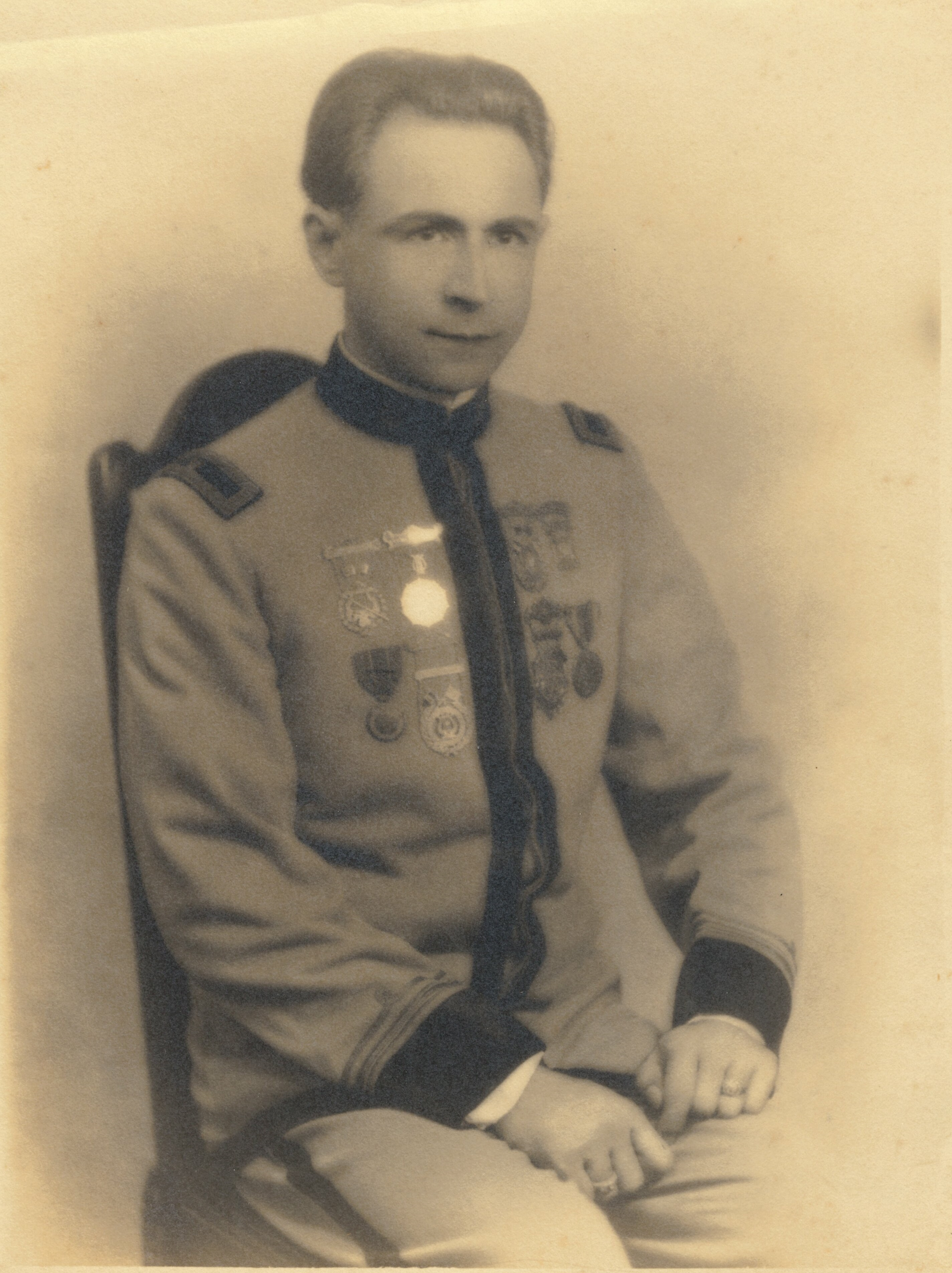 Ceasar La Monaca photo circa 1929